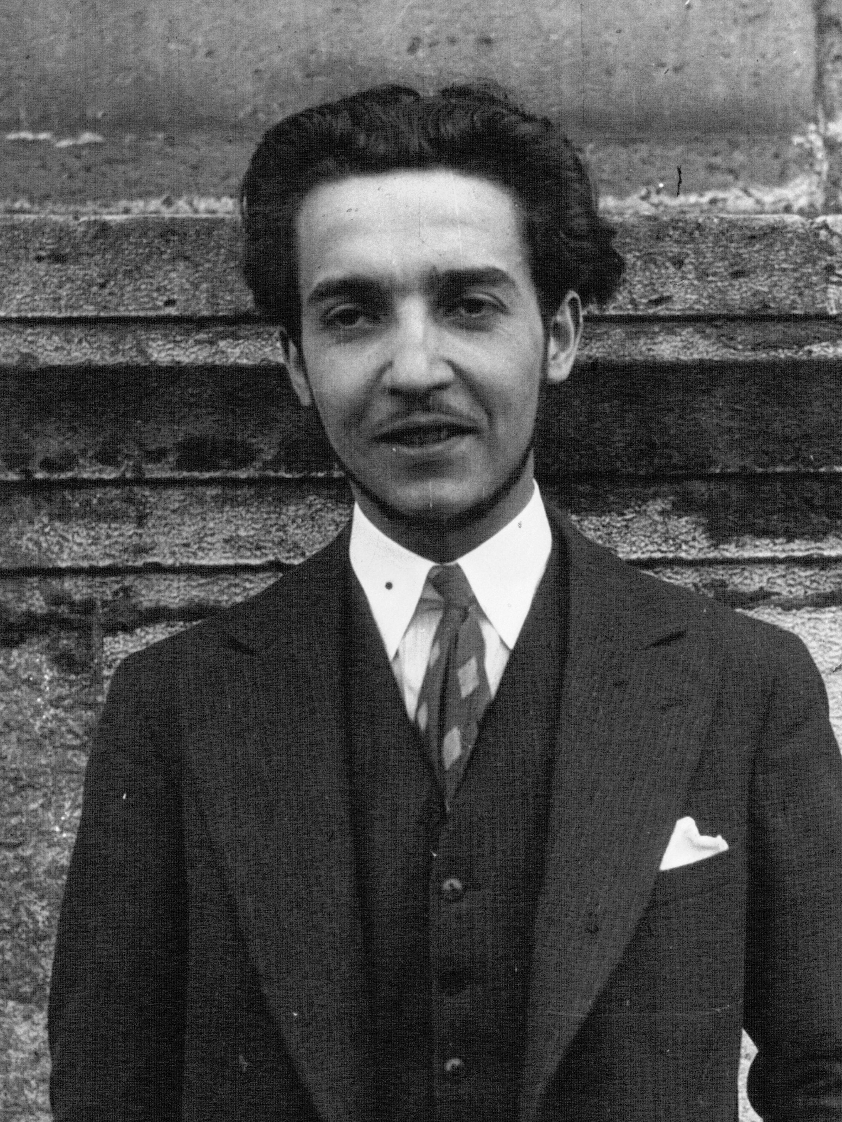 French painter and engraver Jules-Henri Lengrand (1907-2001).